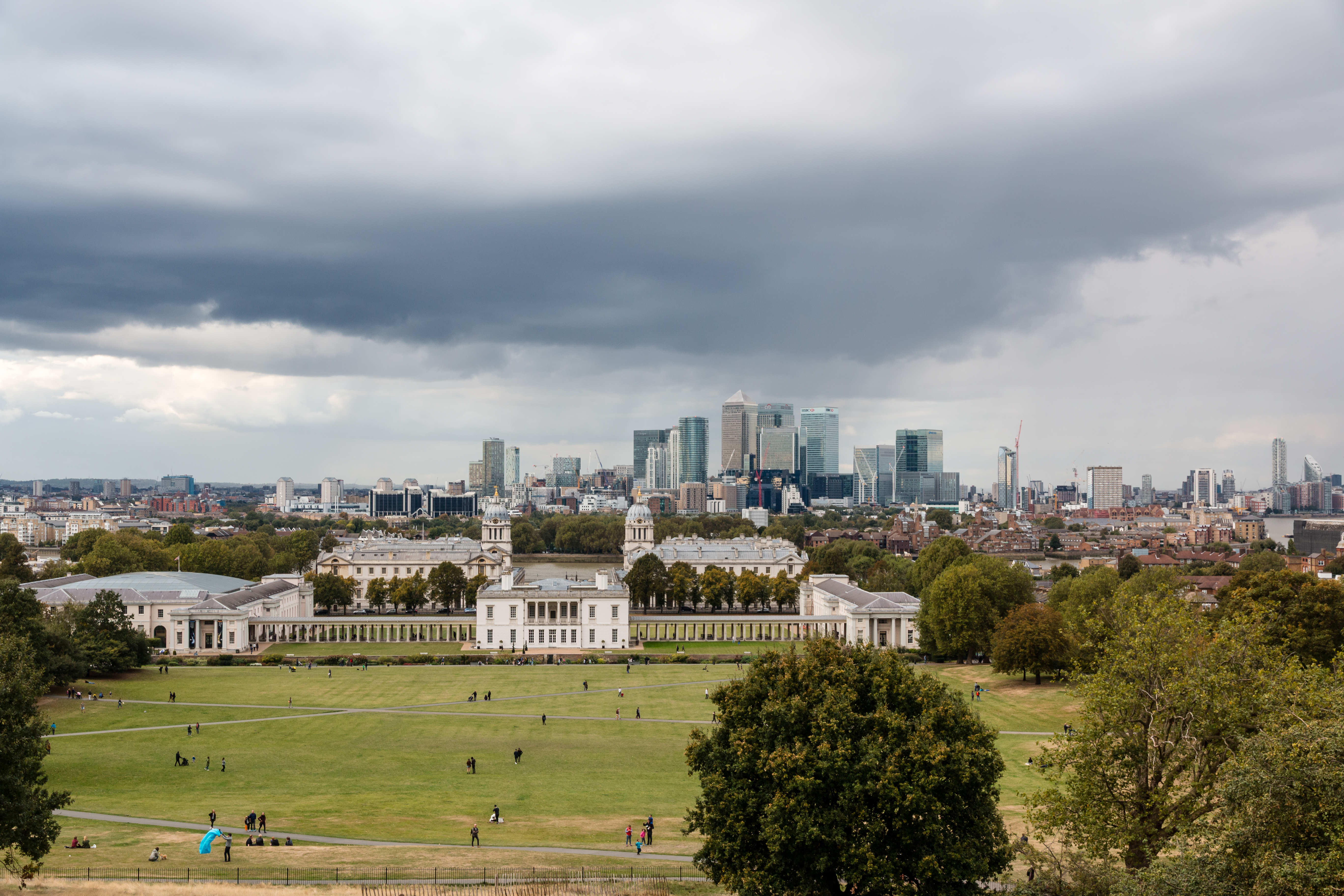 View from the hill of the Royal Greenwich Observatory, London, England, United Kingdom